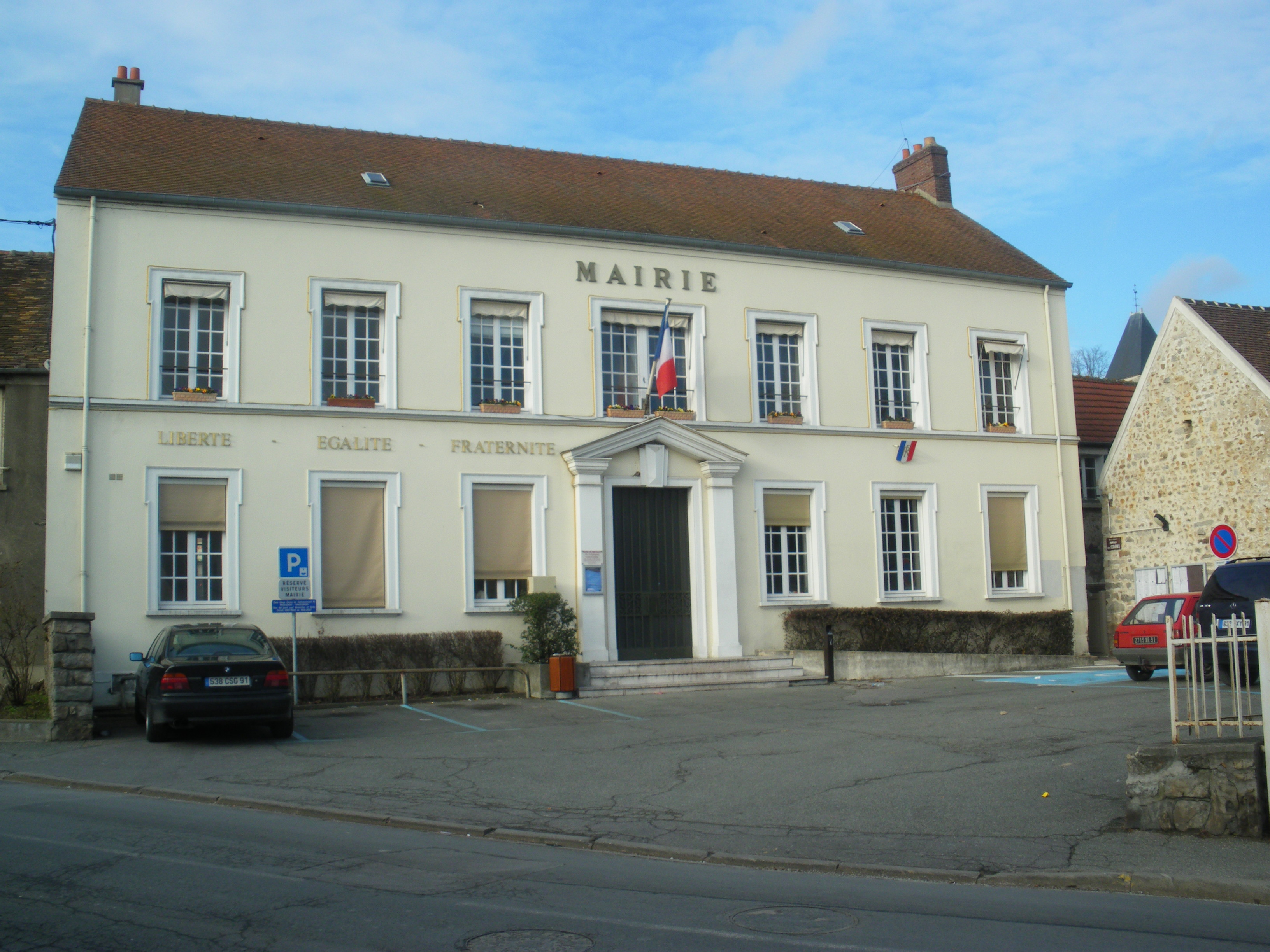 Ancient Breuillet Town Hall, Essonne, France